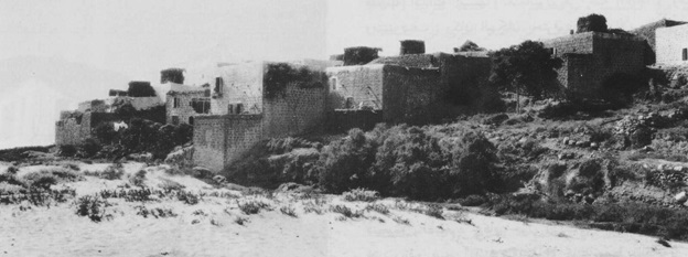 General view of az-Zeeb